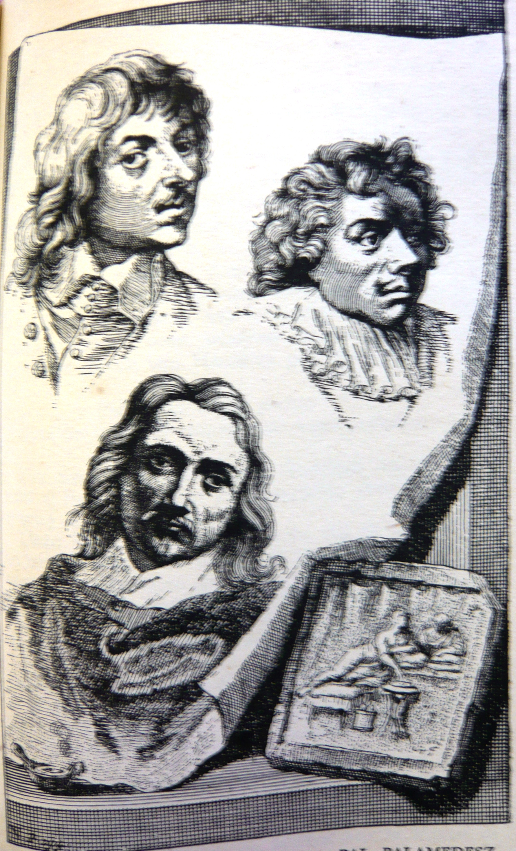 Schouburg Part 1 Plate N with Jan Lievens, Palamedes Palamedesz and Erasmus Quellinus, Page 294 of Part 1 of Arnold Houbraken's Schouburg from 1718